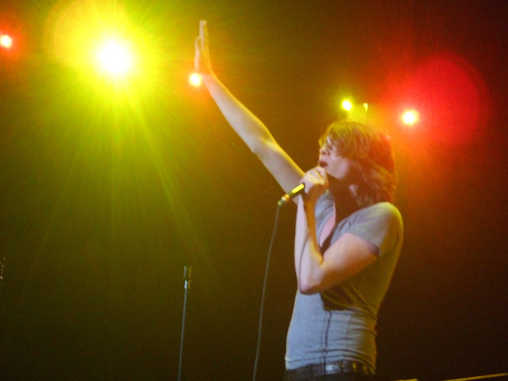 Singer William Beckett of the band The Academy Is..., at the Bradley Center in Milwaukee, WI.